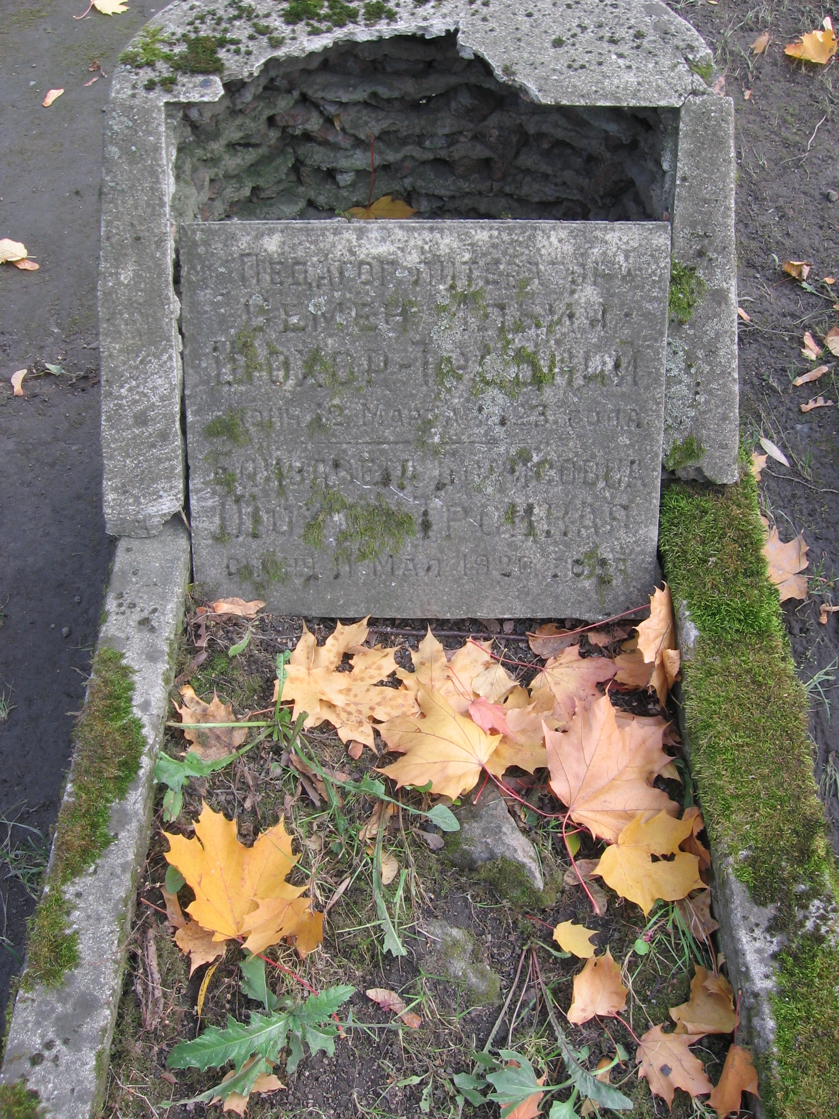 Grave of Sergey Shorokh-Trotsky